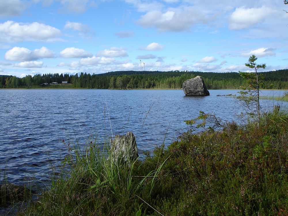 Lake Stor-Åbodsjön in Ångermanland, Sweden. On the rock in the lake there is a stone age painting.